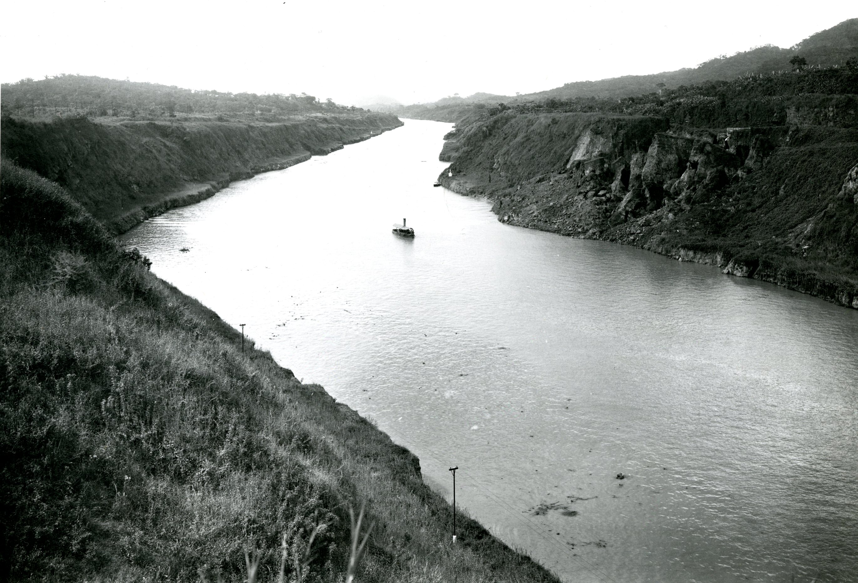 This after photograph of the Panama Canal was used as a guide in the construction of the Cape Cod Canal by the U.S. Army's Office of the Chief Engineers.